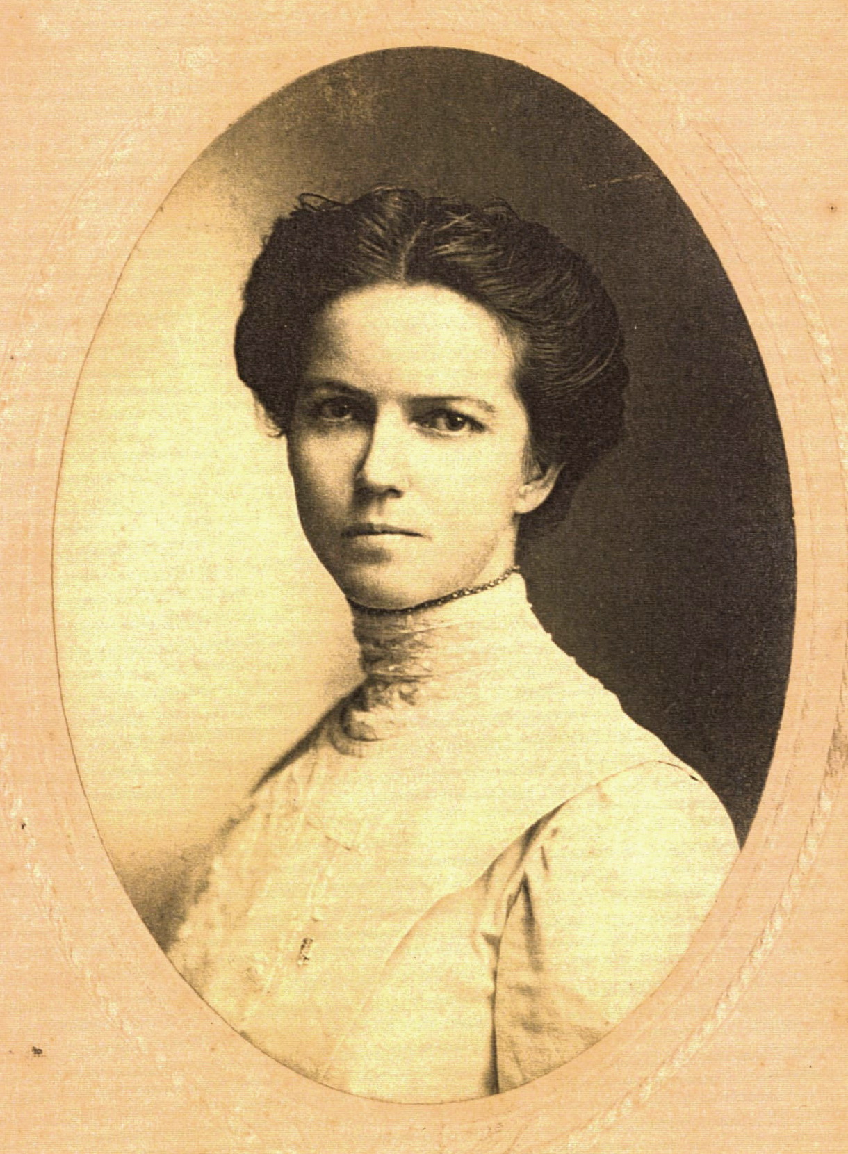 Elizabeth Meriwether-Gilmer (Dorothy Dix) as a young woman in her early 30s